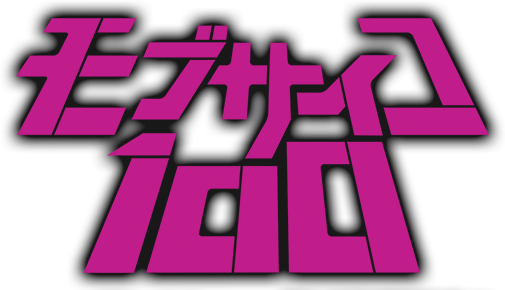 Mob Psycho 100 logo